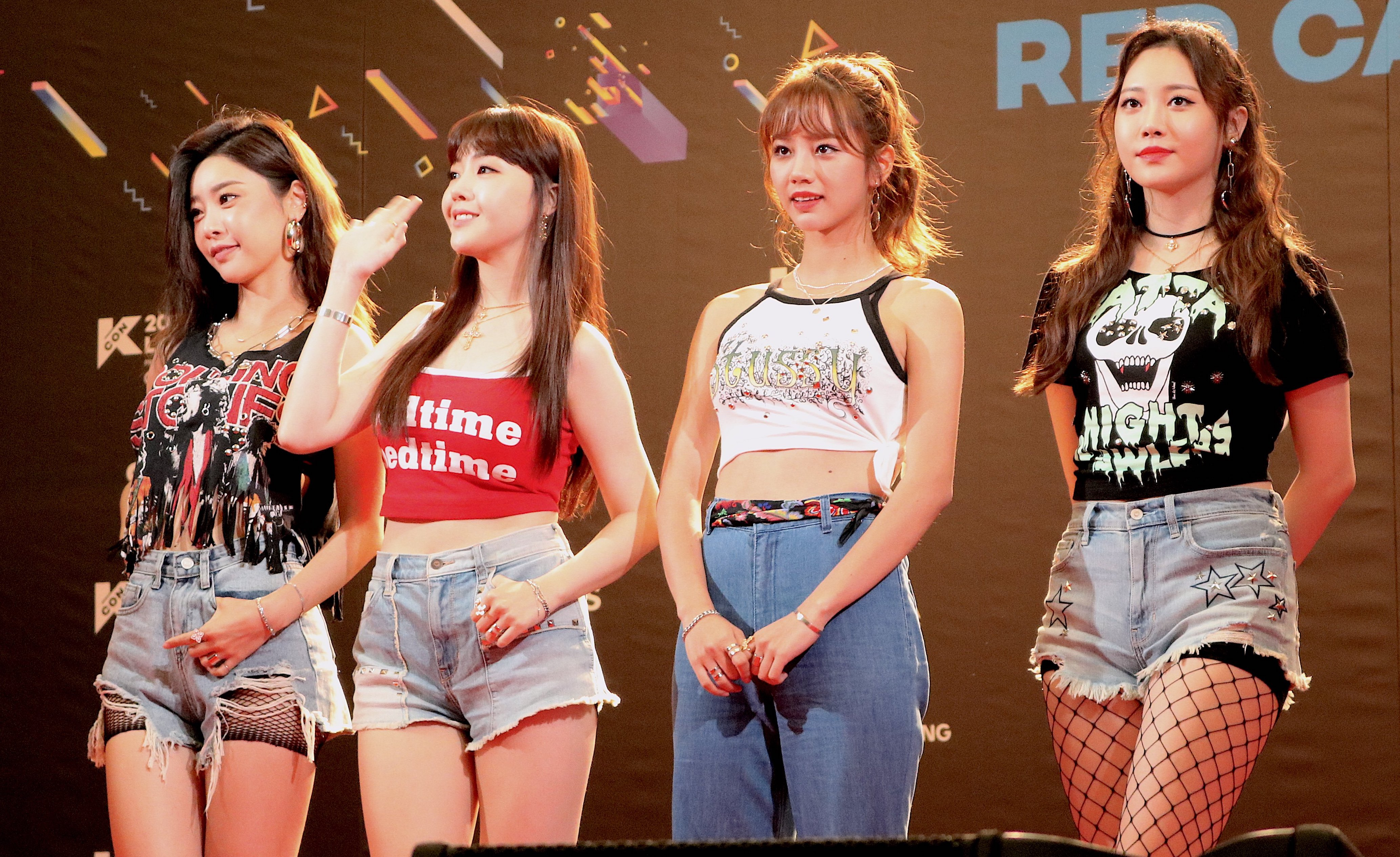 Girl's Day at KCon 2017 LA